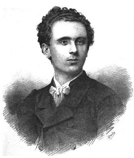 Portrait of Grigore Haralambie Grandea (1843-1897) - Romanian writer and journalist